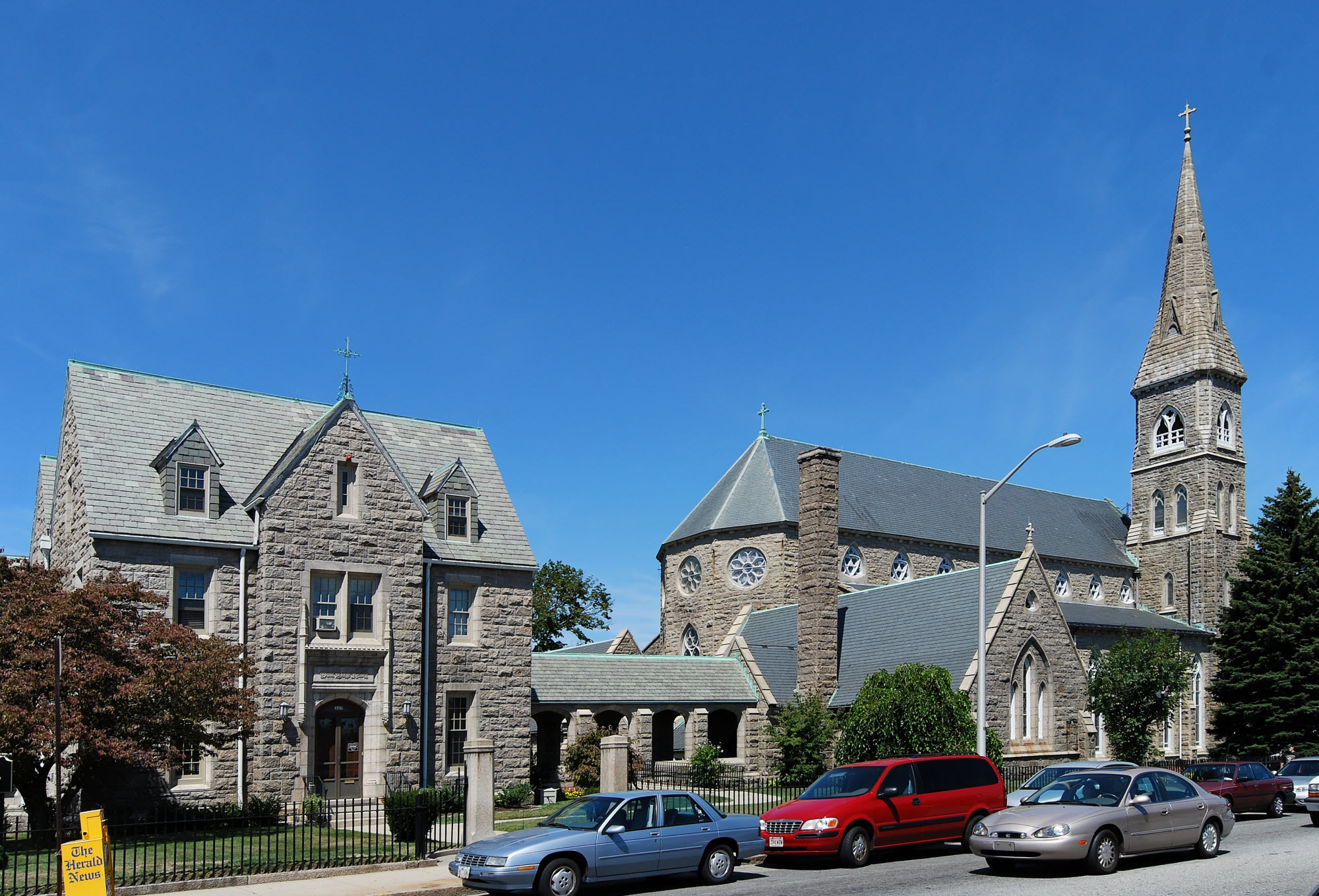 St. Mary's Cathedral, Second Street, Fall River, Massachusetts.